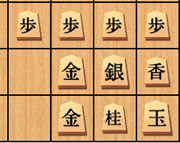 Screenshot of an Anaguma castle in the game of Shogi, using MacShogi software.